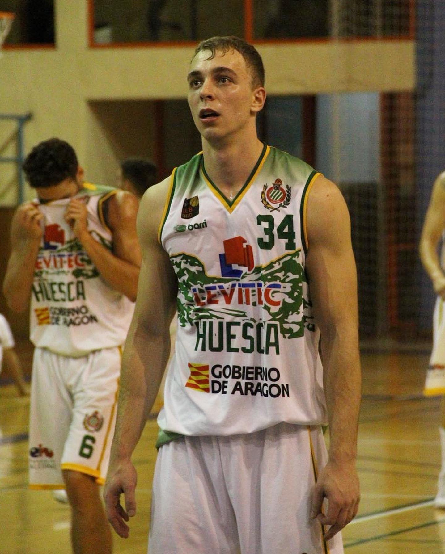 Visto Demetrio Basketball Player